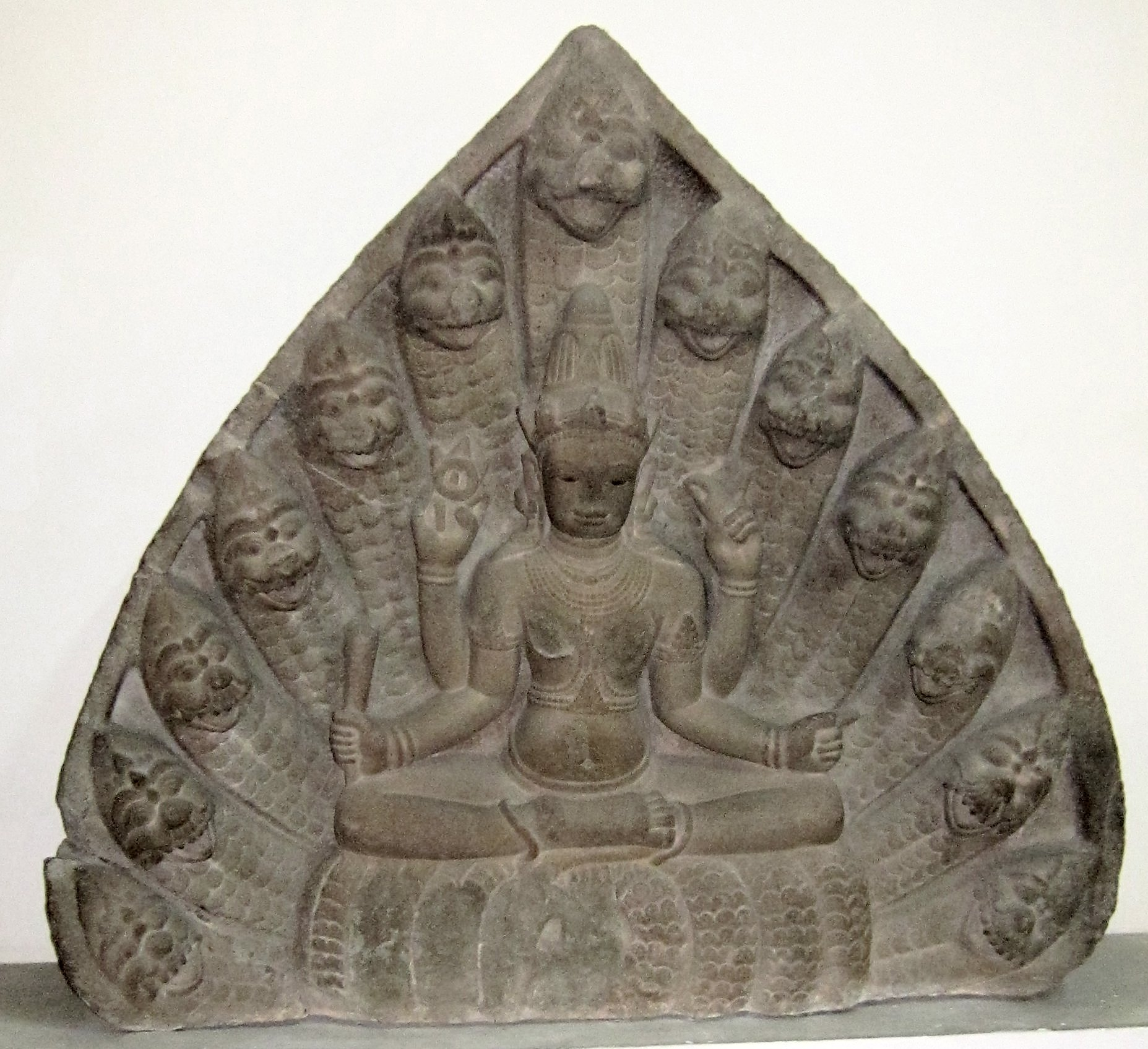 The God Visnu, 11th-12th century, Museum of Cham Sculpture